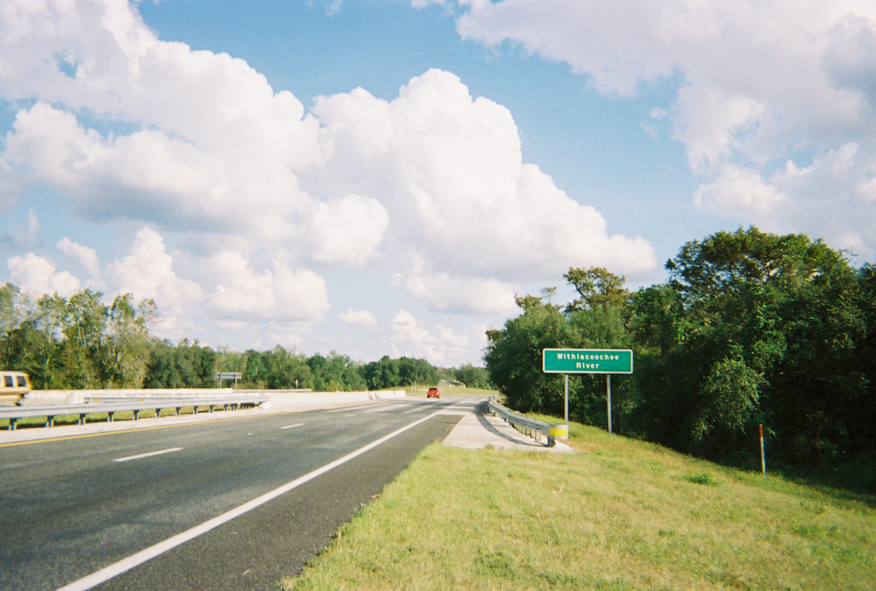 The multiplex of U.S. Route 98 and Florida State Road 50(Cortez Boulevard) as it approaches the bridge over the Withlacoochee River in Ridge Manor, Florida. The former SR 50 can be found to the upper far-left of this pic as Paul N. Steckle Lane.